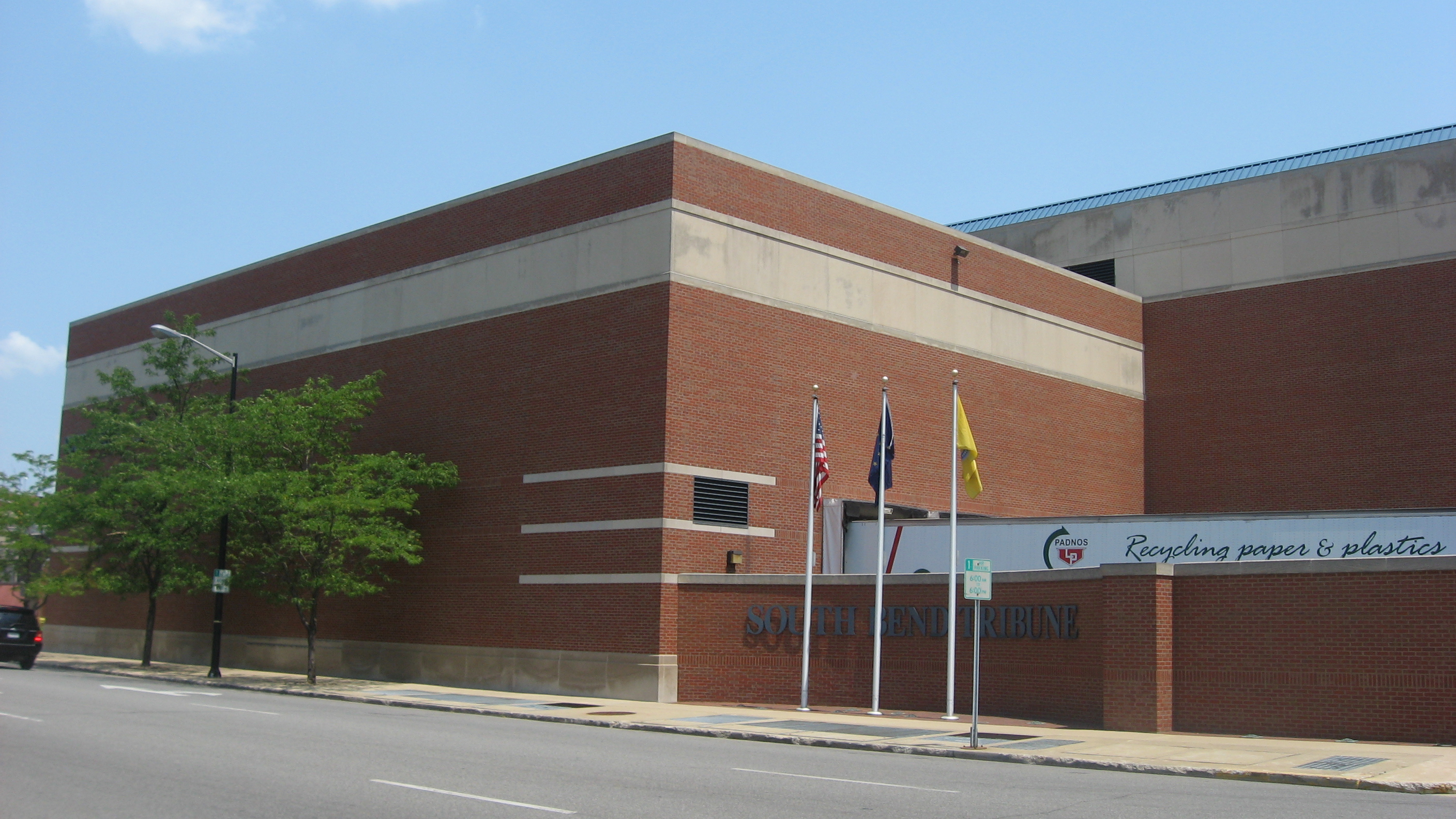 Part of the South Bend Tribune offices, located on the southeastern corner of the junction of LaSalle Avenue and Lafayette Boulevard in South Bend, Indiana, United States. This part of the newspaper complex occupies the site of the former offices of the South Bend Remedy Company, which were listed on the National Register of Historic Places in 1985 and have not yet been removed.